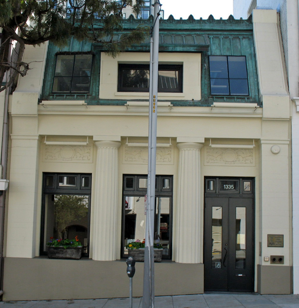 National Register of Historic Places in San Francisco, California. Grabhorn Press Building, 1335 Sutter St, San Francisco, California, USA. Photographed 2008-03-09 by Mike Hofmann from sidewalk on north side of Sutter St. between Van Ness Ave. and Franklin St.